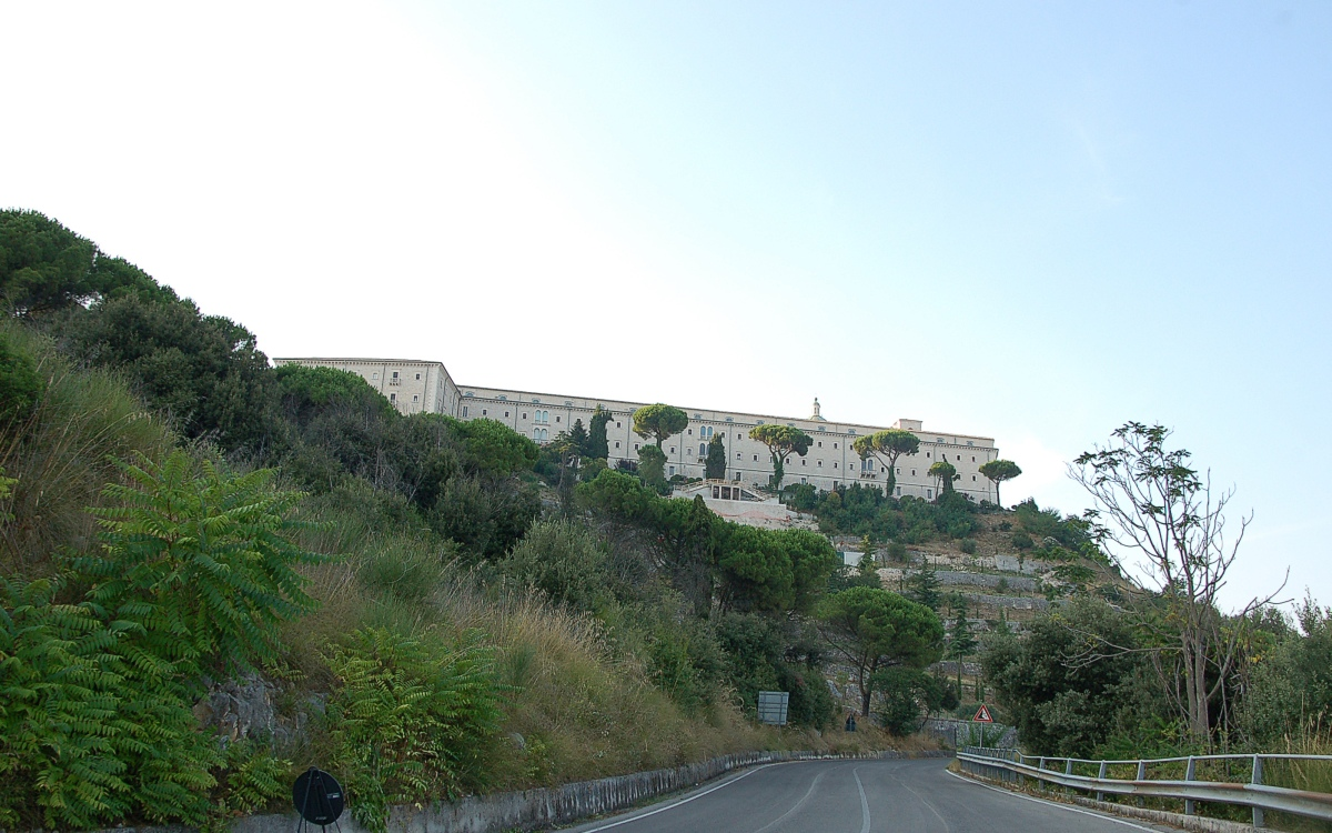 Monte Cassino Abbey 2010